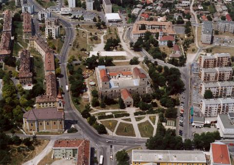 Várpalota, Hungary, aerialphotgraphy